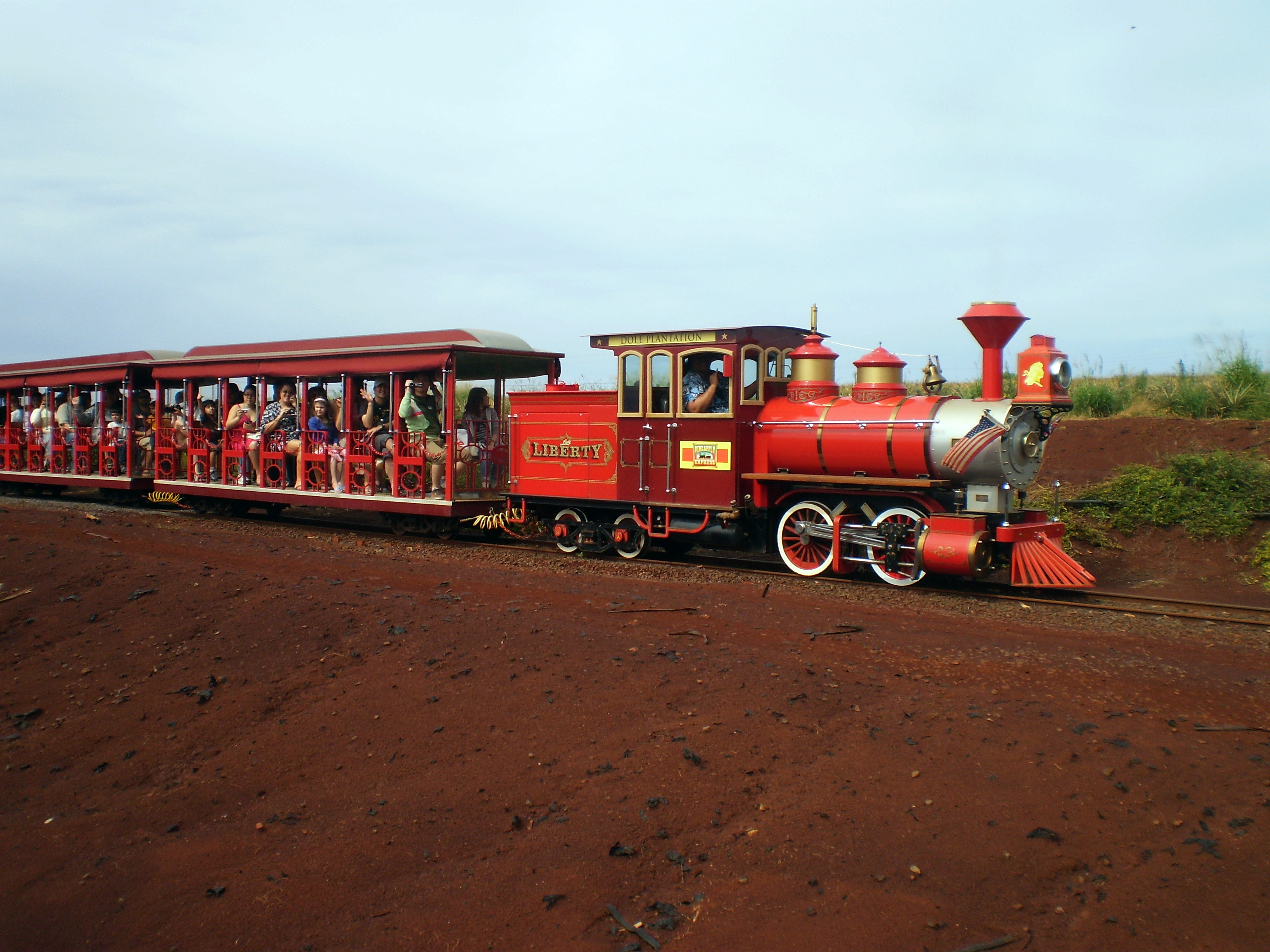 Train Tour at Dole Plantation Wahiawa, HI